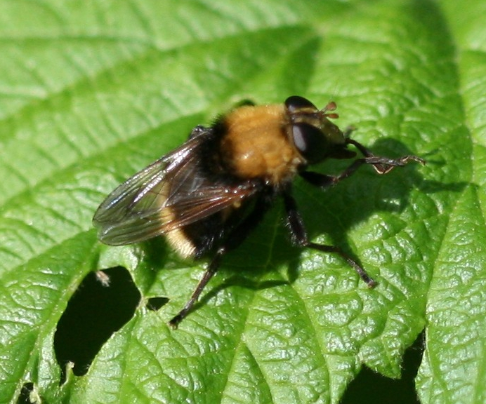 Criorhina berberina (female) - a bumblebee mimicking hoverfly